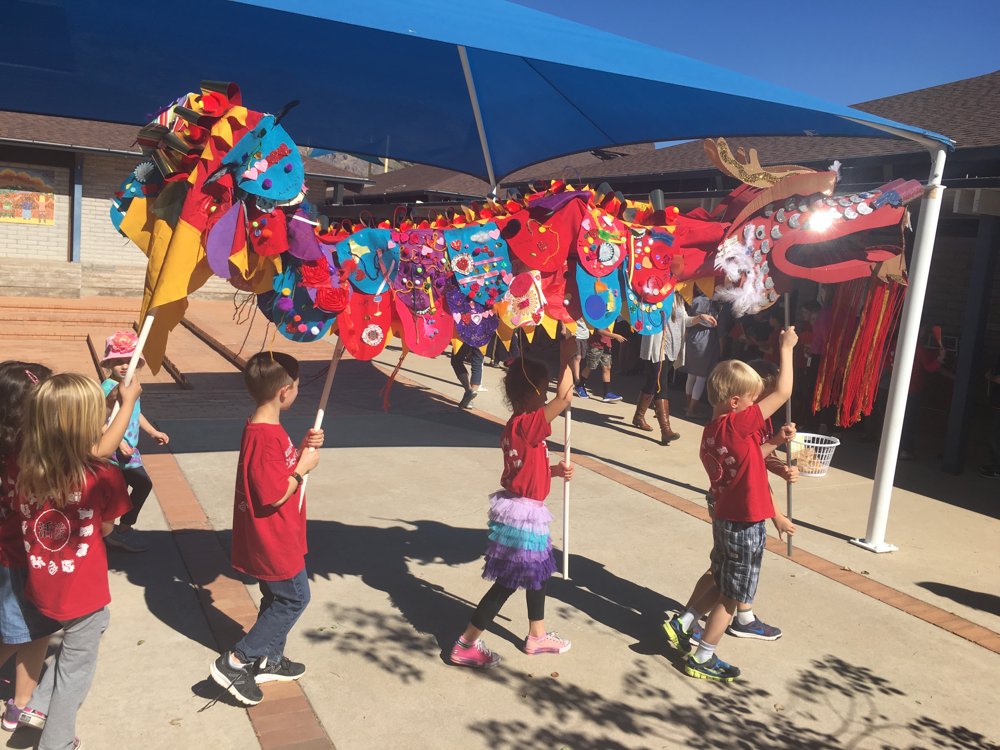 Sunrise Drive Students holding dragon at Spring Festival parade.